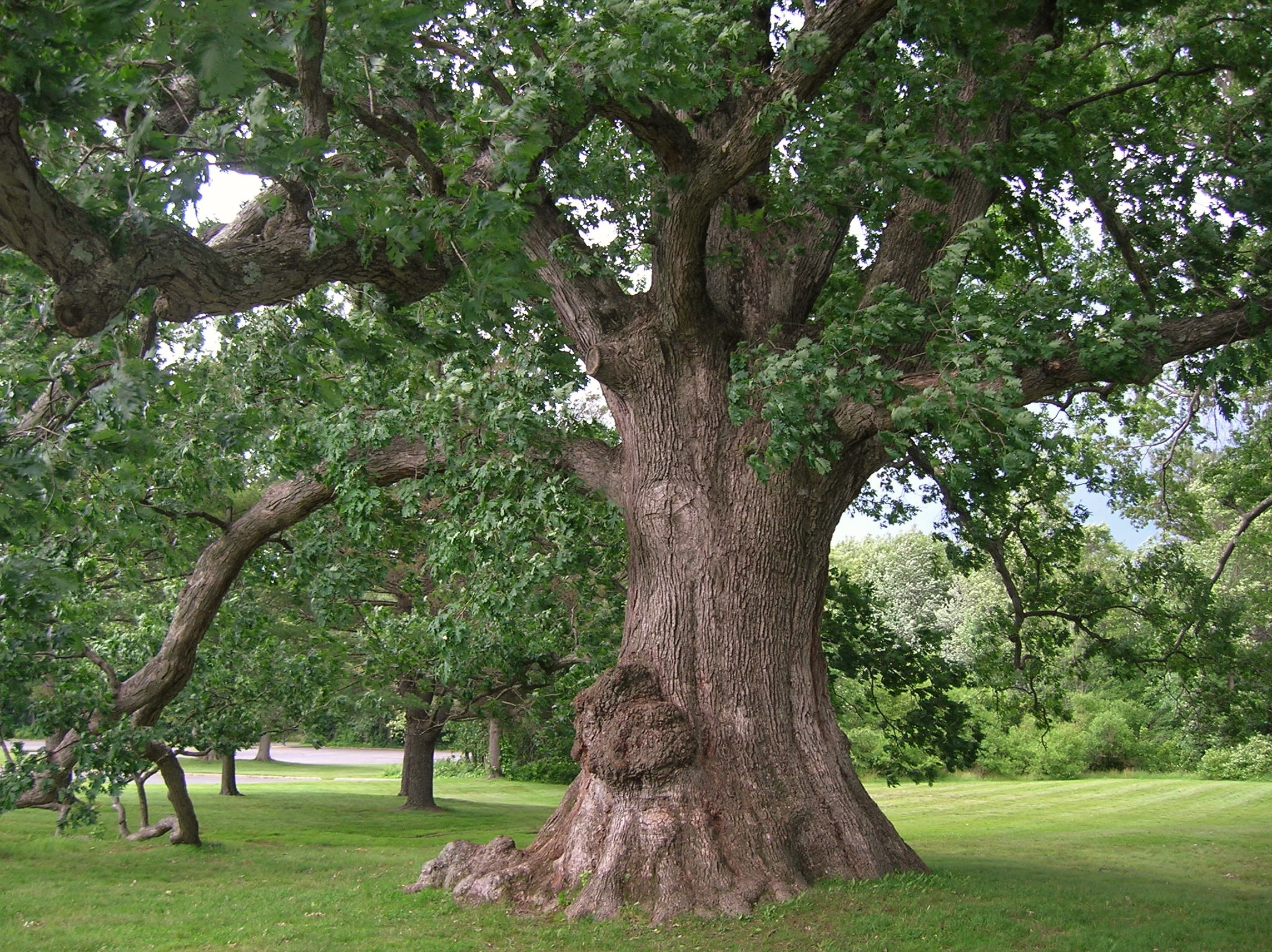 White Oak tree located in West Hartford, Connecticut. Photo taken 6/17/2013.